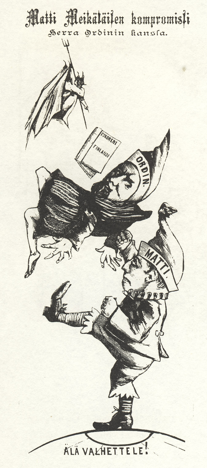 "Matti Meikäläinen's compromise with mr. Ordin"; Matti Meikäläinen 3.5.1890.